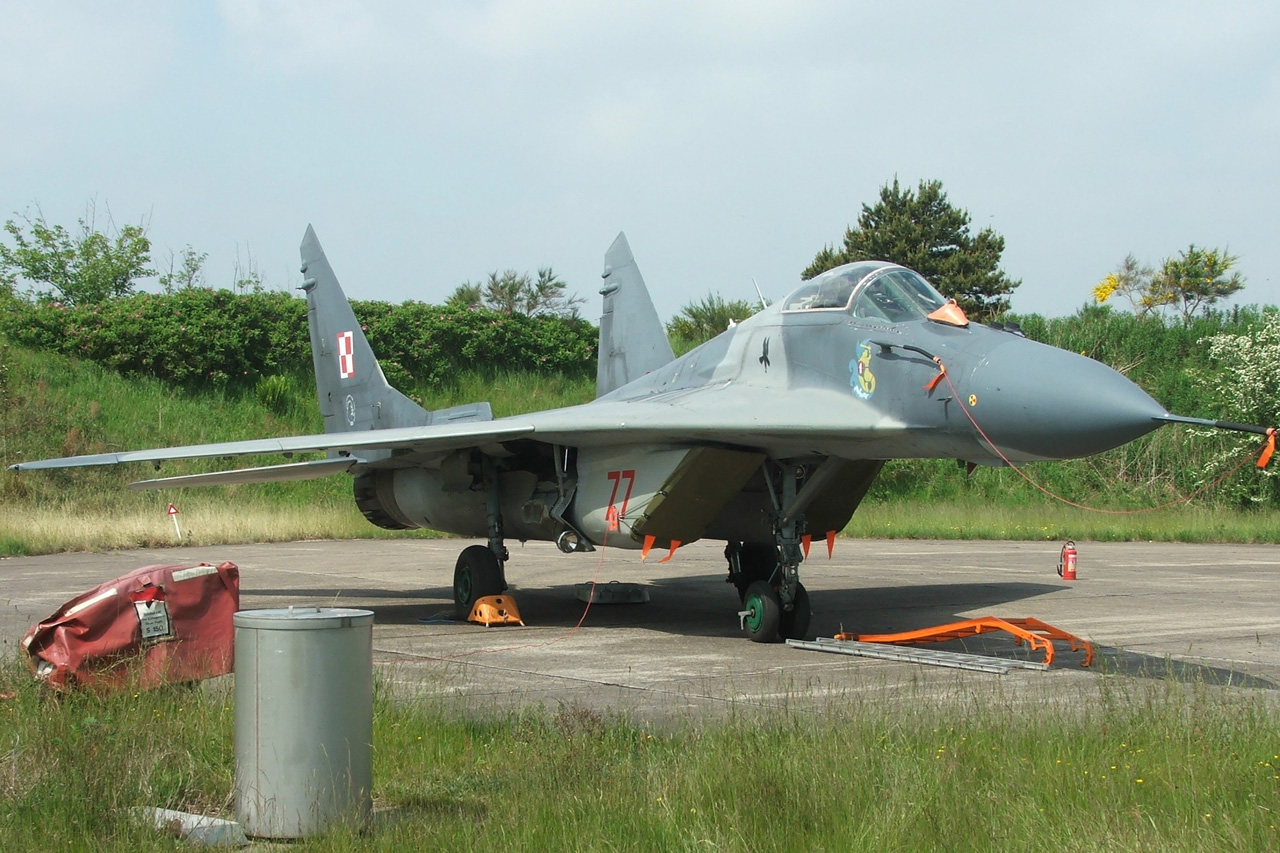 Polish MiG-29A #77 in painting of 1st Tactical Squadron Air Force Base Skrydstrup, Denmark. 2006